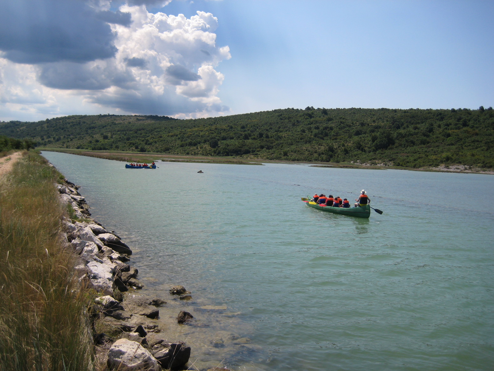 River Dragonja when meeting the Adriatic sea